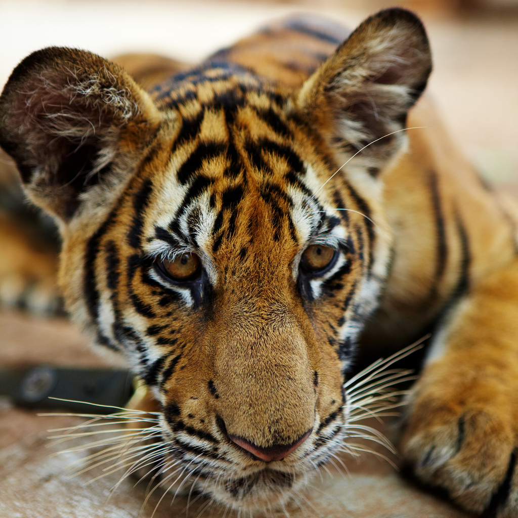 Tiger cub at "Tiger Temple" in Kanchanaburi province, Thailand.